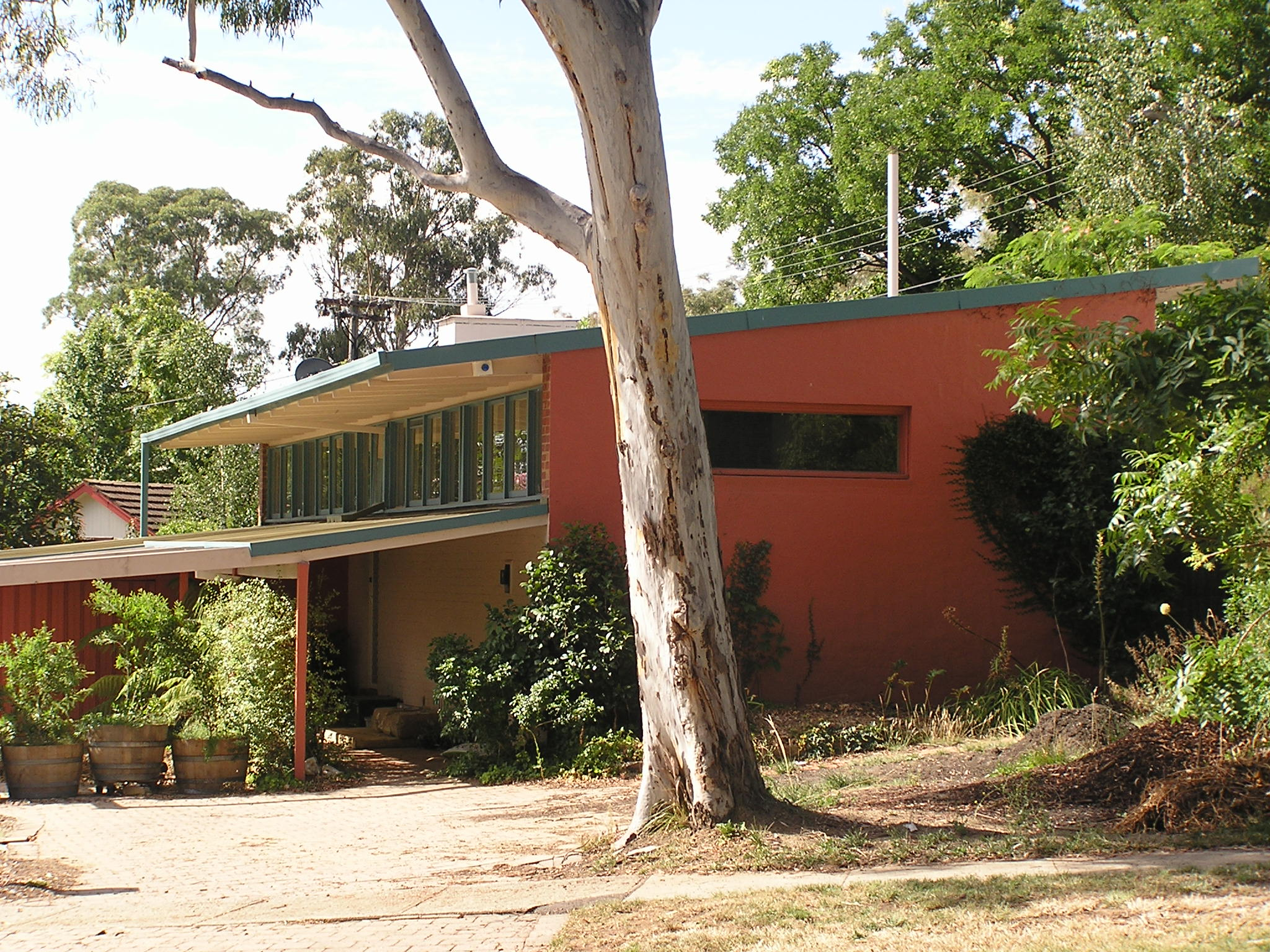 House designed by Robin Boyd at 4 Bedford Street Deakin, a suburb of Canberra, Australia. The house is typical of the post-war Melbourne regional style of architecture.